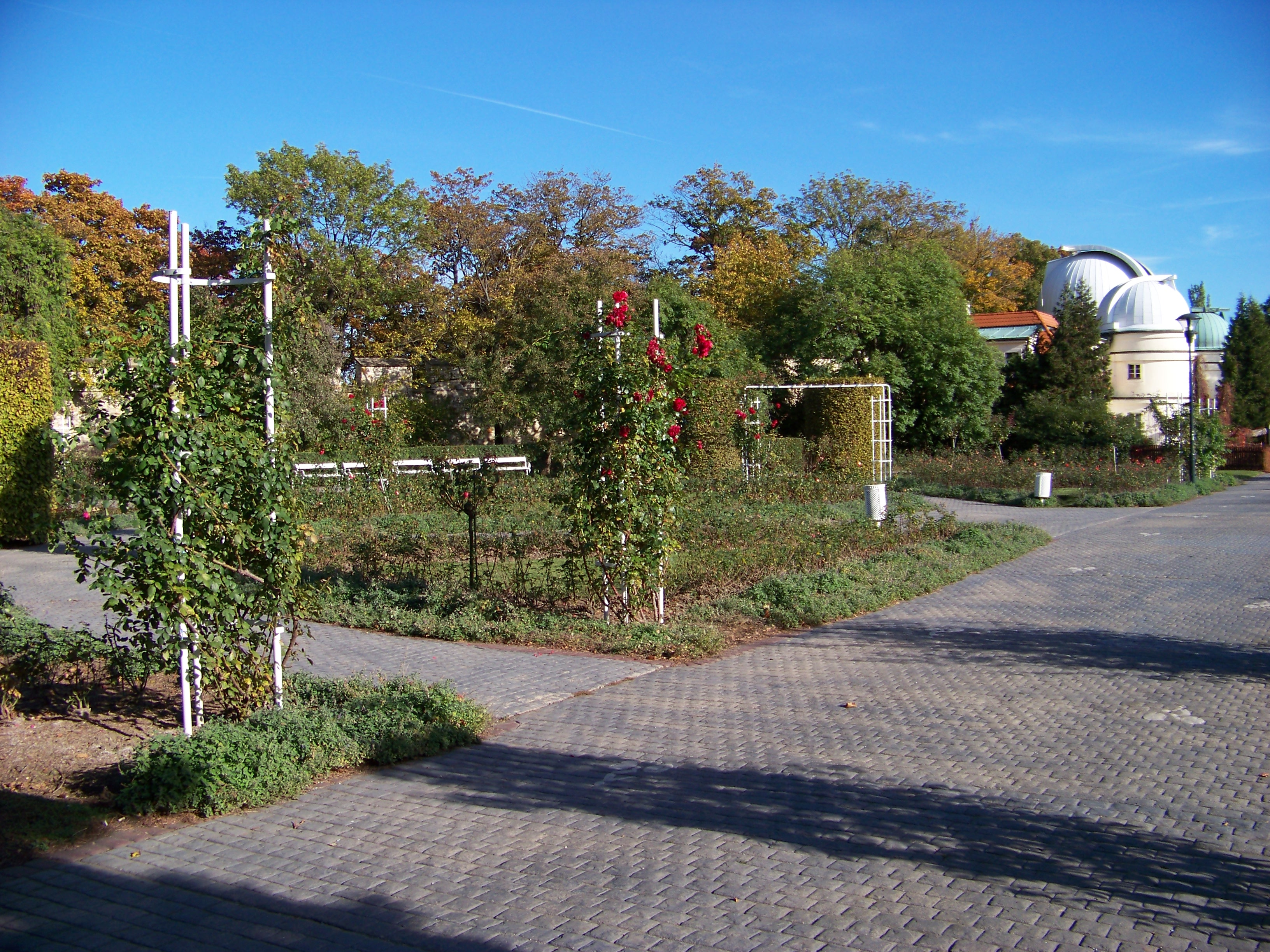 Prague-Hradčany, the Czech Republic. Petřín Hill, a rose garden and Štefánik Observatory. - OpenStreetMap(Info)